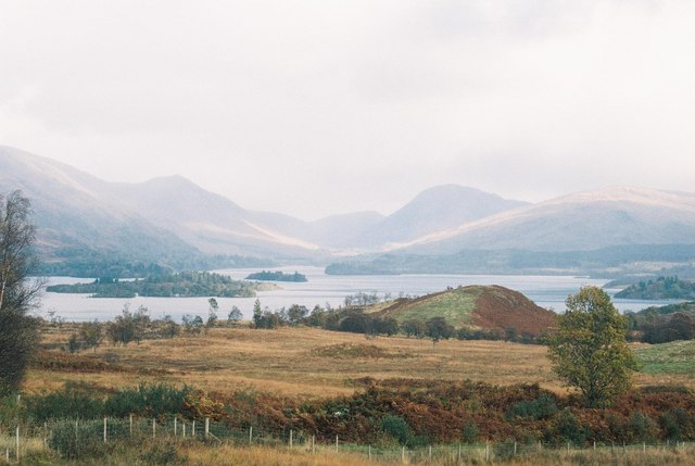 View of Loch Awe islands Inishail and other islands, viewed from the B840 just east of Portsonachan